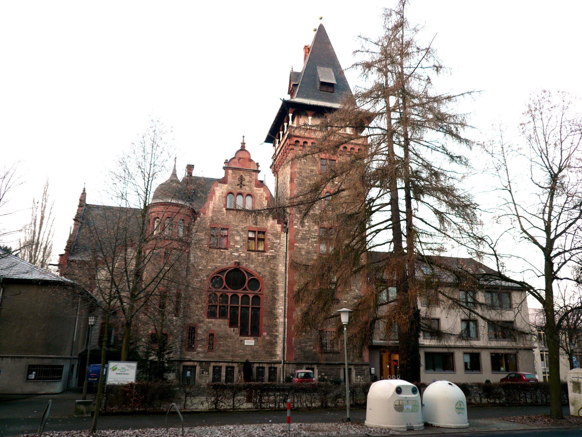 Goethe institute at Goettingen